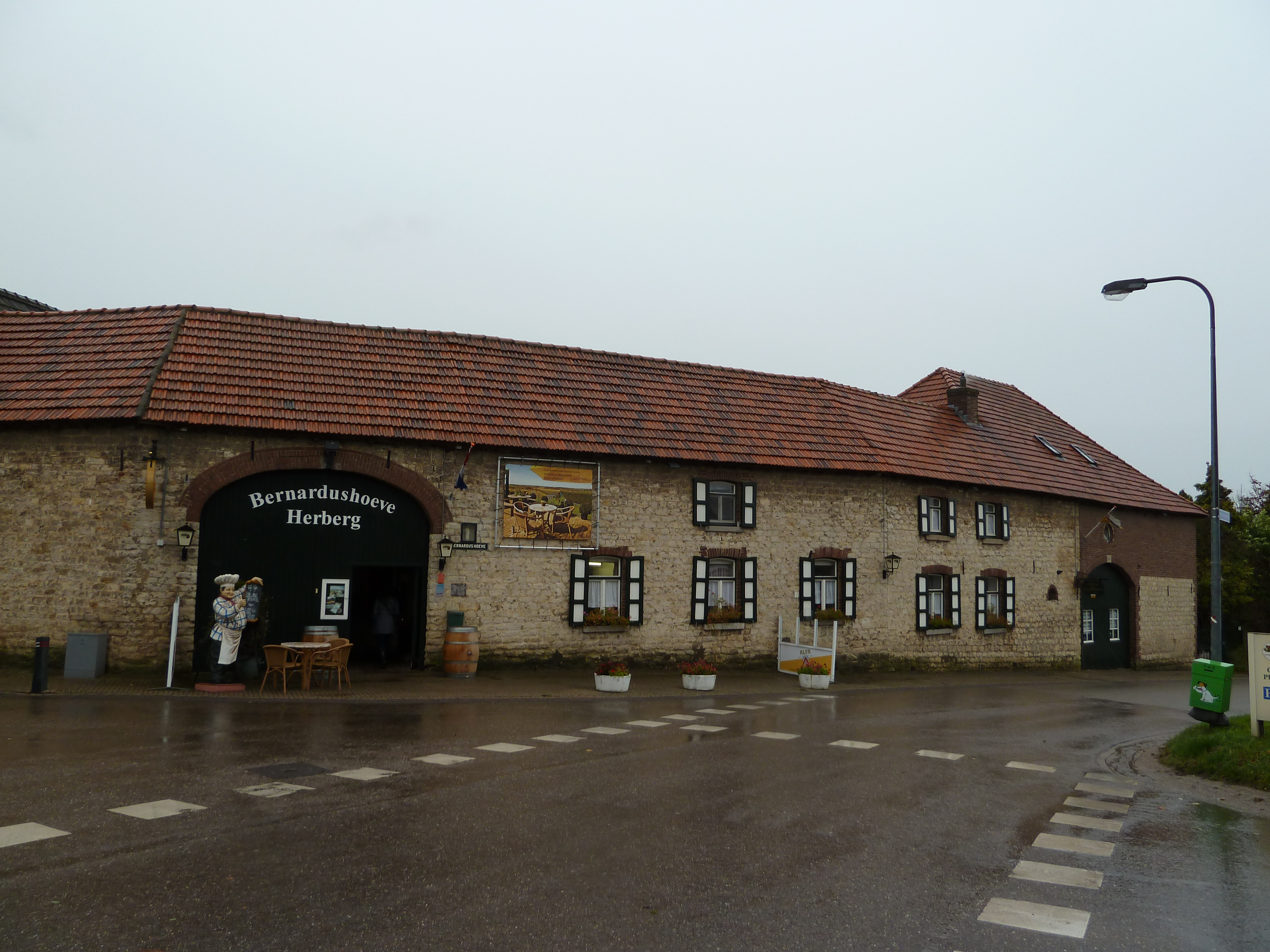 Mingersborg 20, Ubachsberg, Limburg, the Netherlands